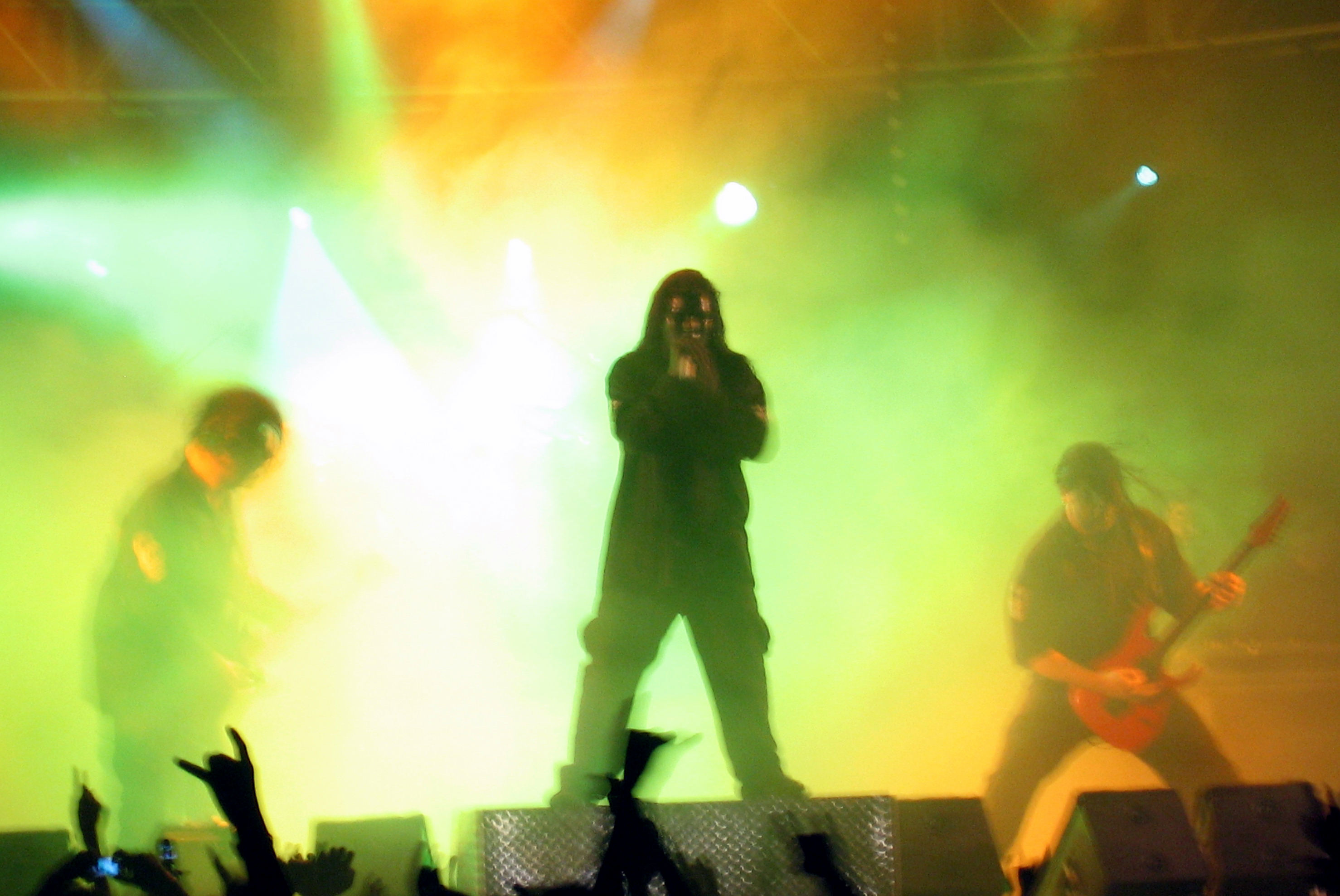 Slipknot performing at Bex Rock in 2005